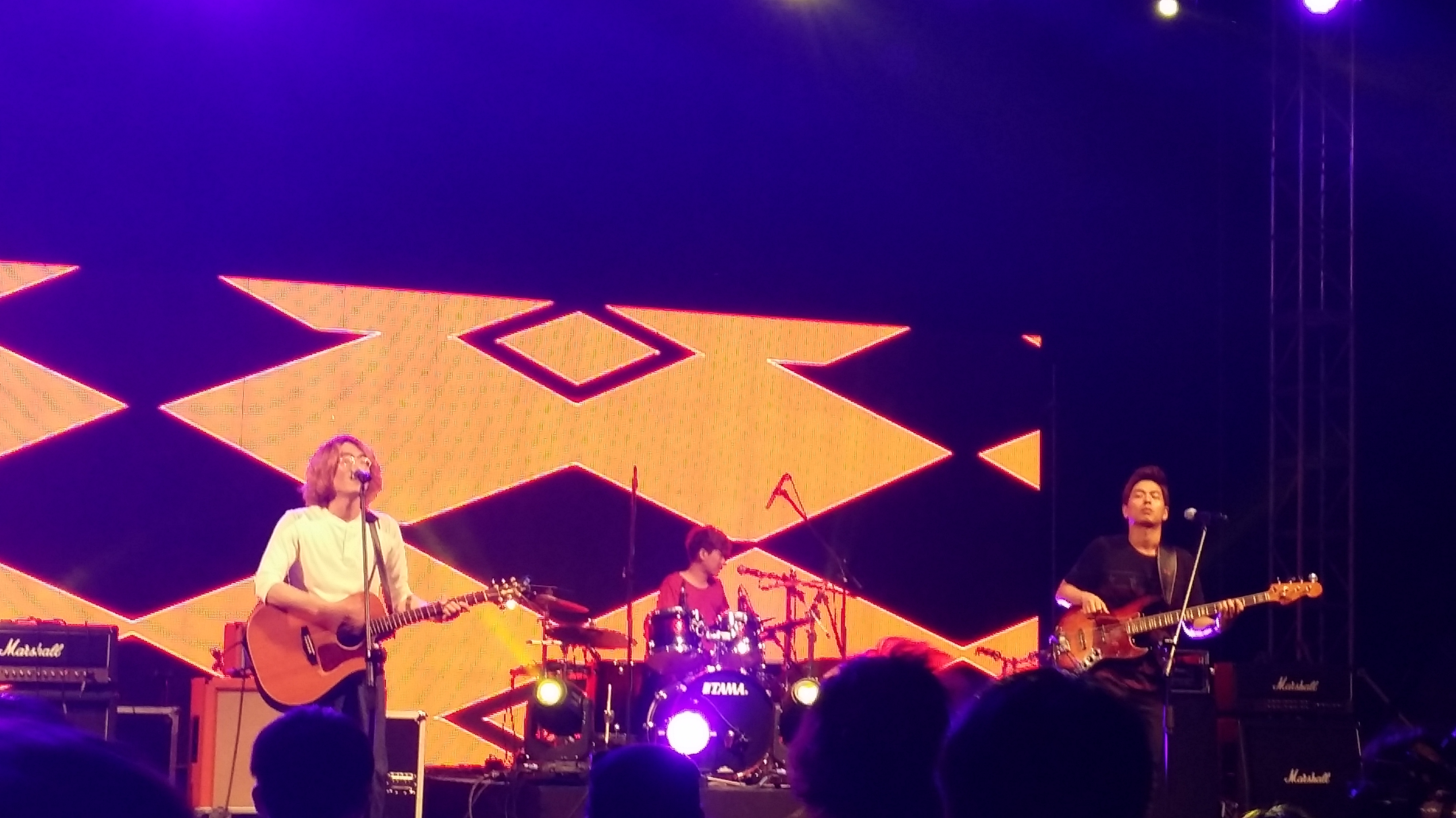 Achtung in Busan Rock Festival on 9 August 2015